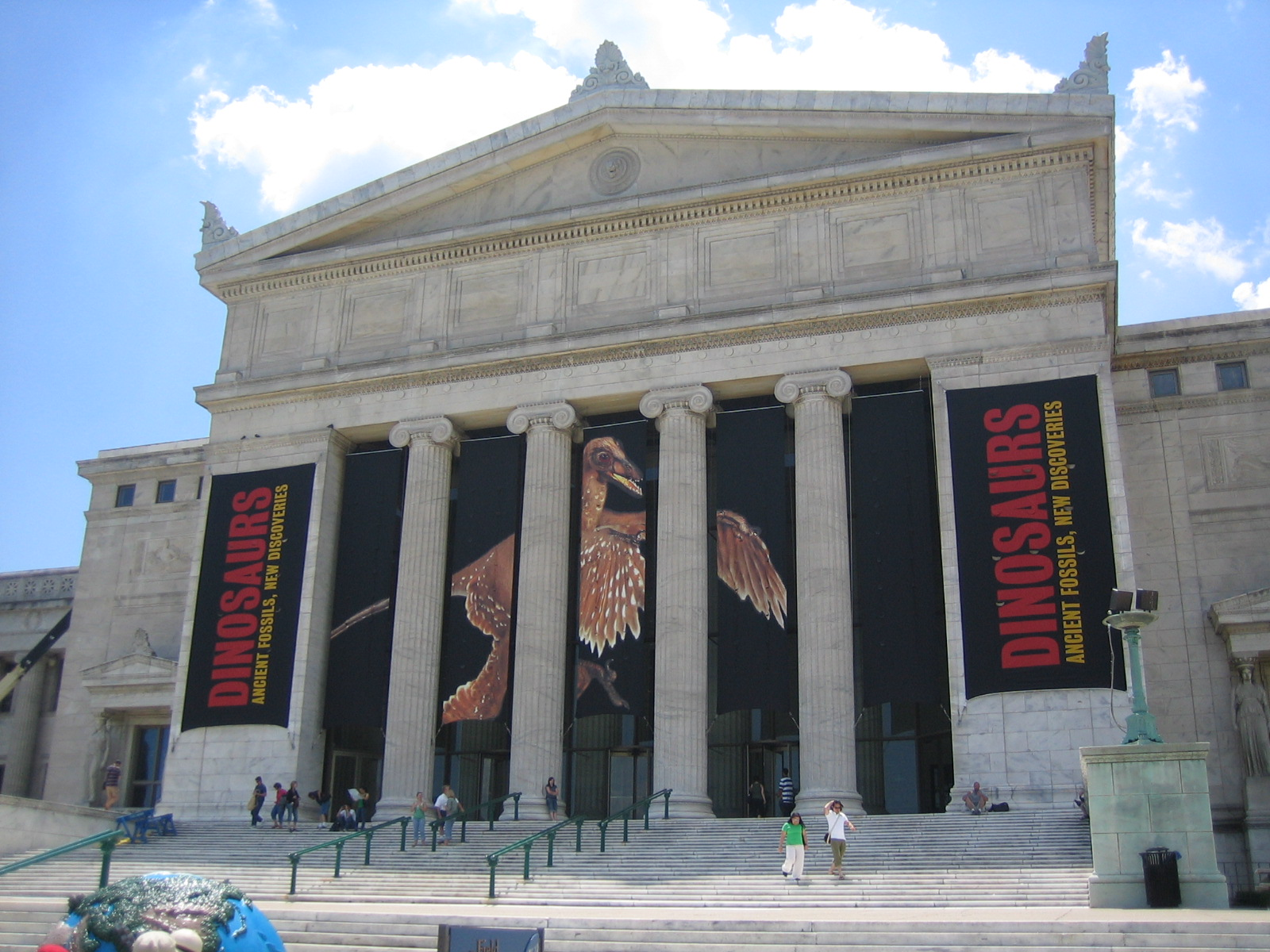 The frontal view of the Field Museum on July 4, 2007 when the museum was having an exhibit on Dinosaurs.